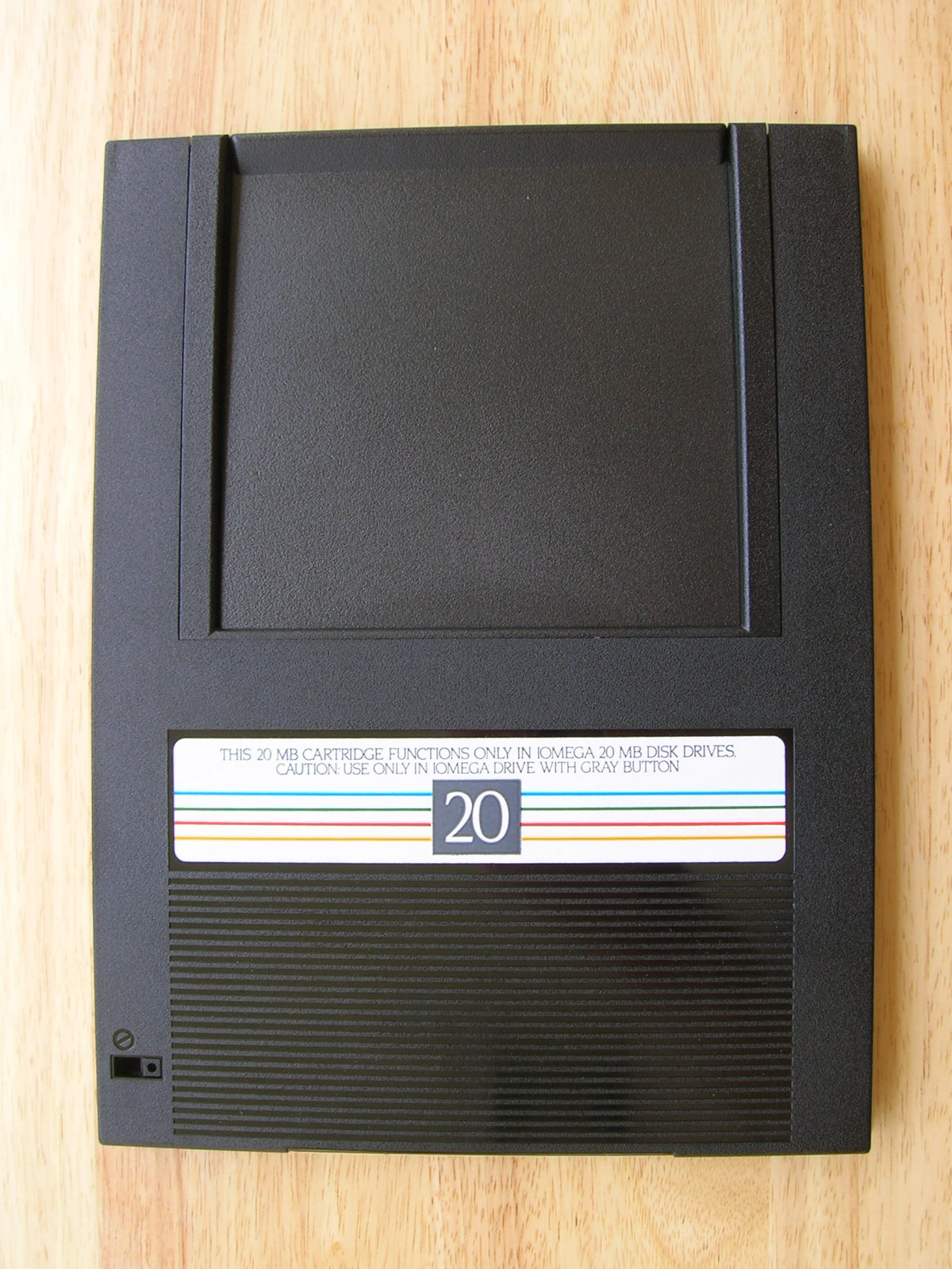 20 MB, 8 inch Bernoulli disk cartridge, made by Iomega.